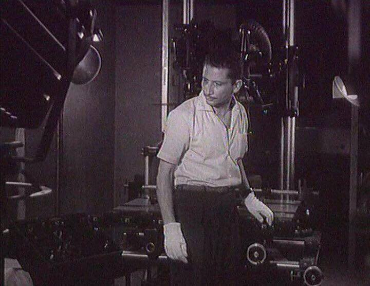 Hossam Moheeb, Egyptian TV 1962, Shooting The White Line Film